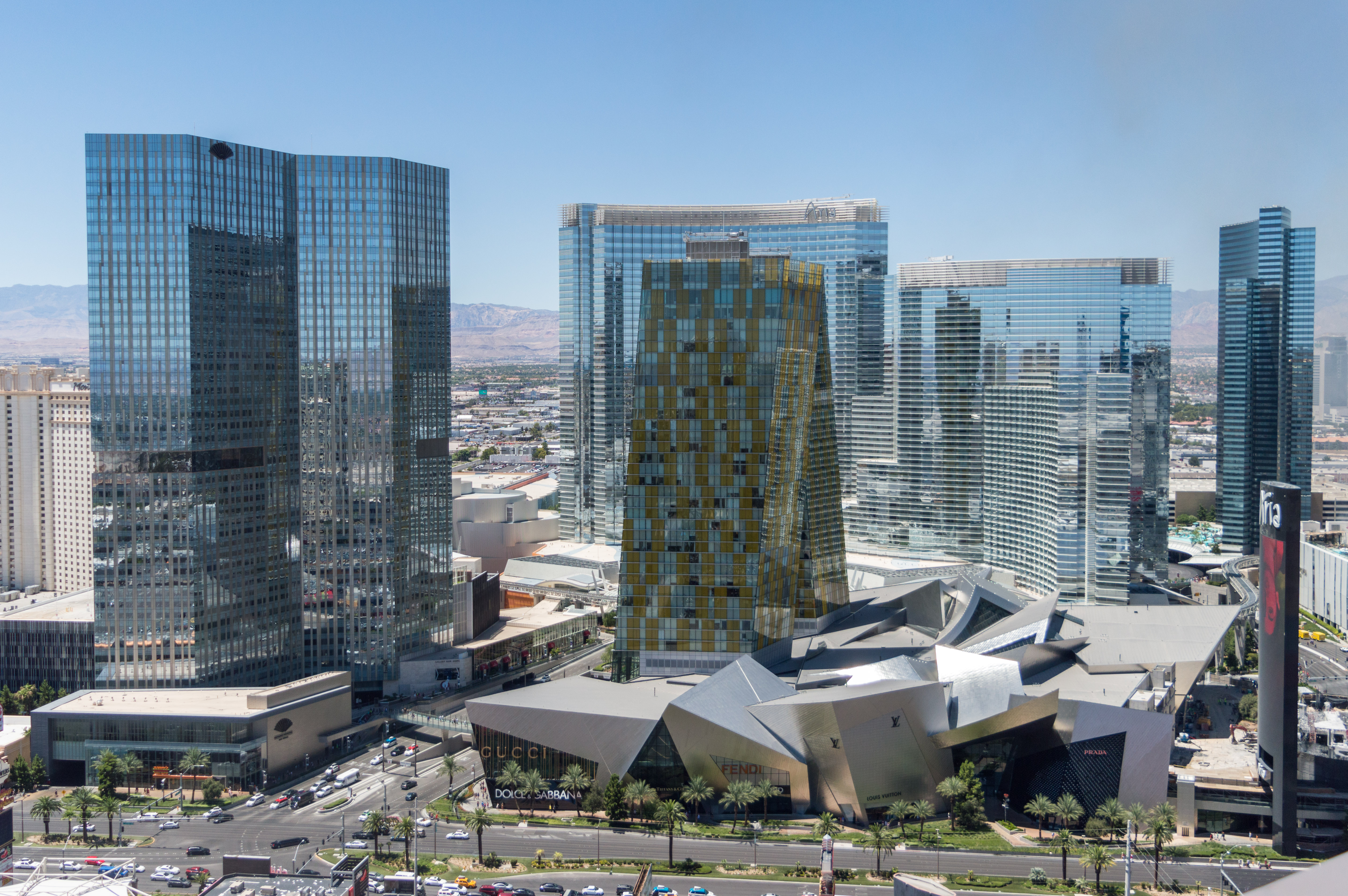 The entire Project CityCenter in Las Vegas, seen from the roof terrace of Marriott's Grand Chateau. From left to right: Mandarin Oriental, The Crystals, Aria, the Veer Tower, and Vdara.